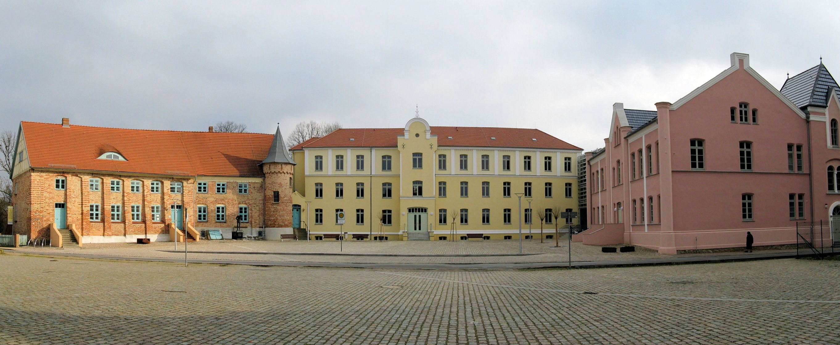 Square Schlossplatz at Bützow Castle, district Güstrow, Mecklenburg-Vorpommern, Germany